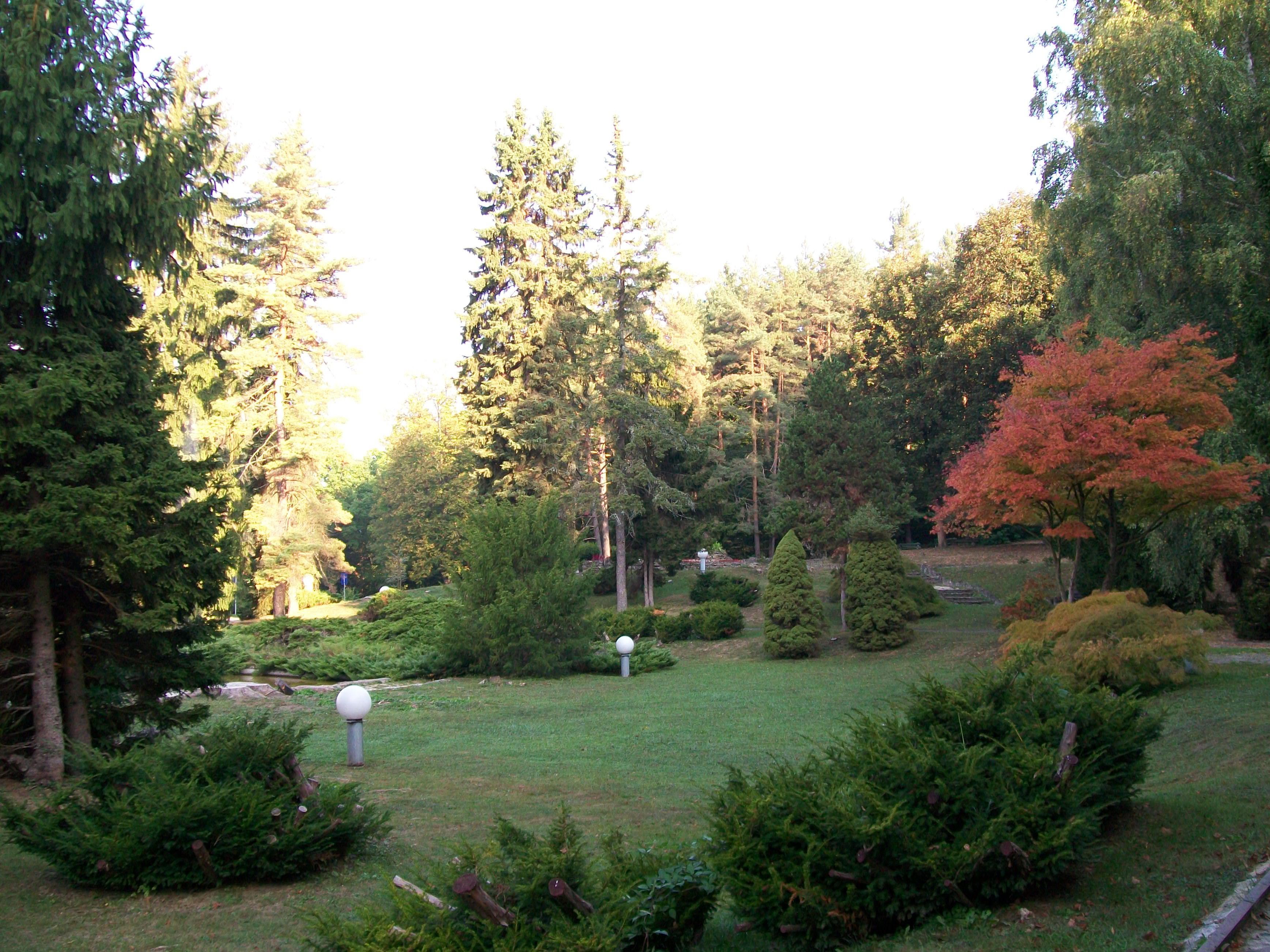 Beautiful park in the spa Sliač